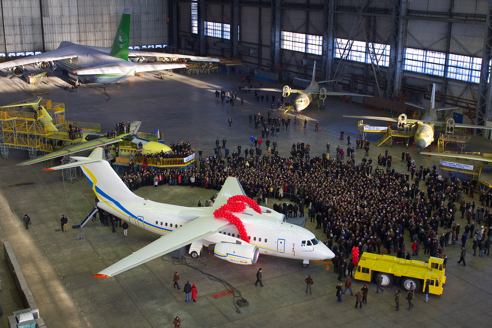 The official rollout ceremony of the first Ukrainian serially produced Antonov An-148 at the Antonov Serial Production Plant.